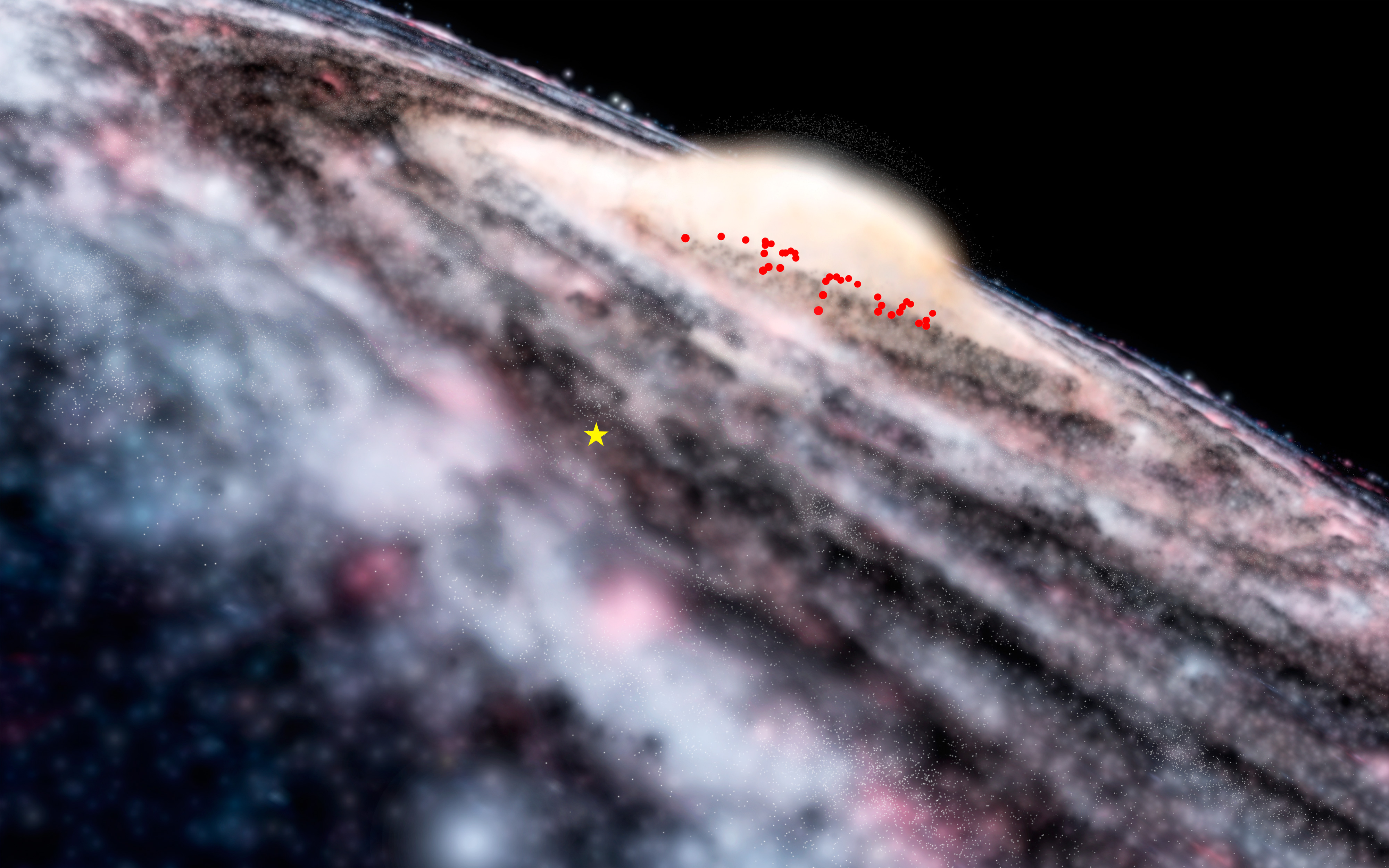 Astronomers using the VISTA telescope at ESO’s Paranal Observatory have discovered a previously unknown component of the Milky Way. By mapping out the locations of a class of stars that vary in brightness called Cepheids, a disc of young stars buried behind thick dust clouds in the central bulge has been found. This diagram shows the locations of the newly discovered Cepheids in an artist’s rendering of the Milky Way. The yellow star indicates the position of the Sun.